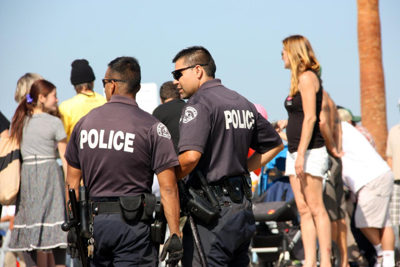 Two LAPD officers at the opening of a skatepark in Venice, California.